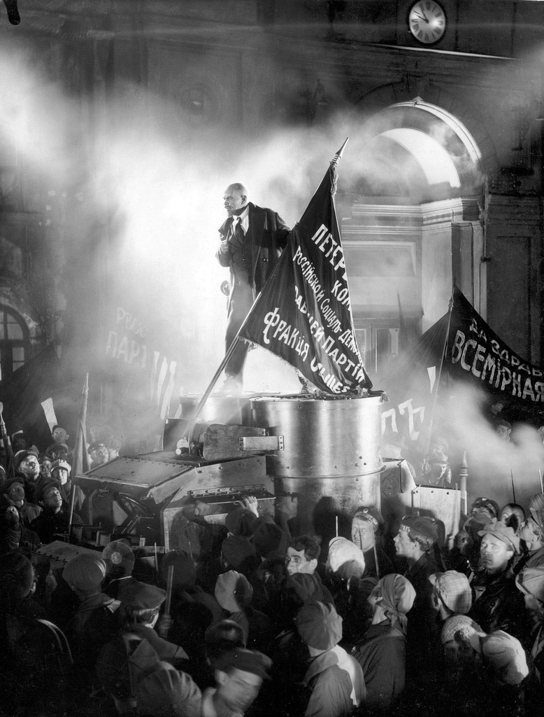 (112) The Russian Propaganda Film: October, or Ten Days That Shook the World, directed by Sergei Eisenstein, 1927